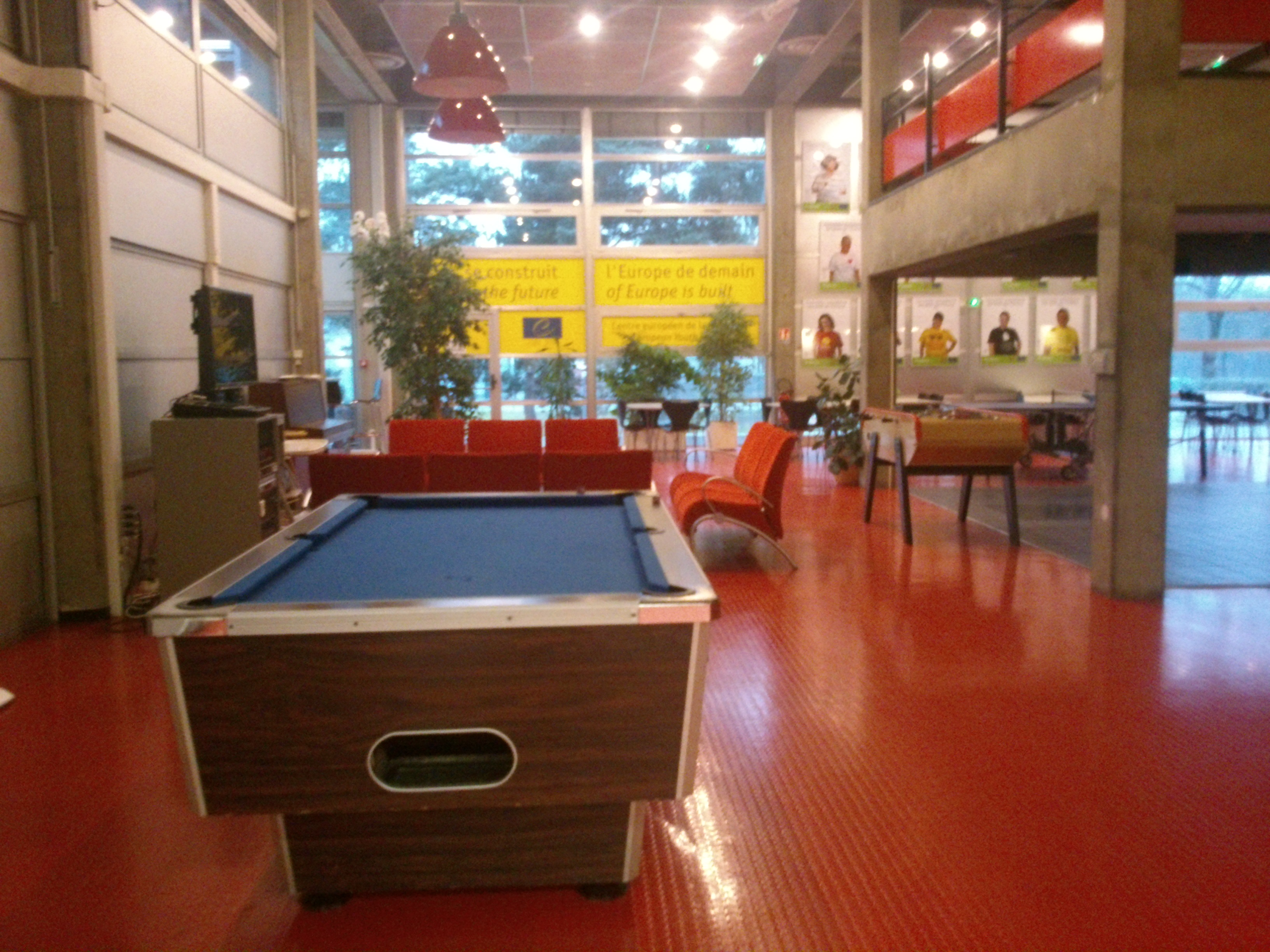 European Youth Centre in Strasbourg, France.